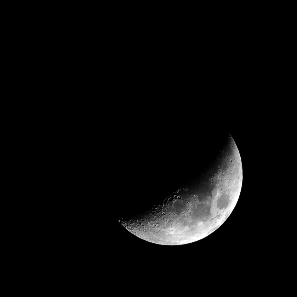 for absorption